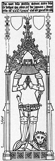 Fig. 4.—Sir Nicholas Burnell, from Brasses, Monumental; Encyclopædia Britannica 1911